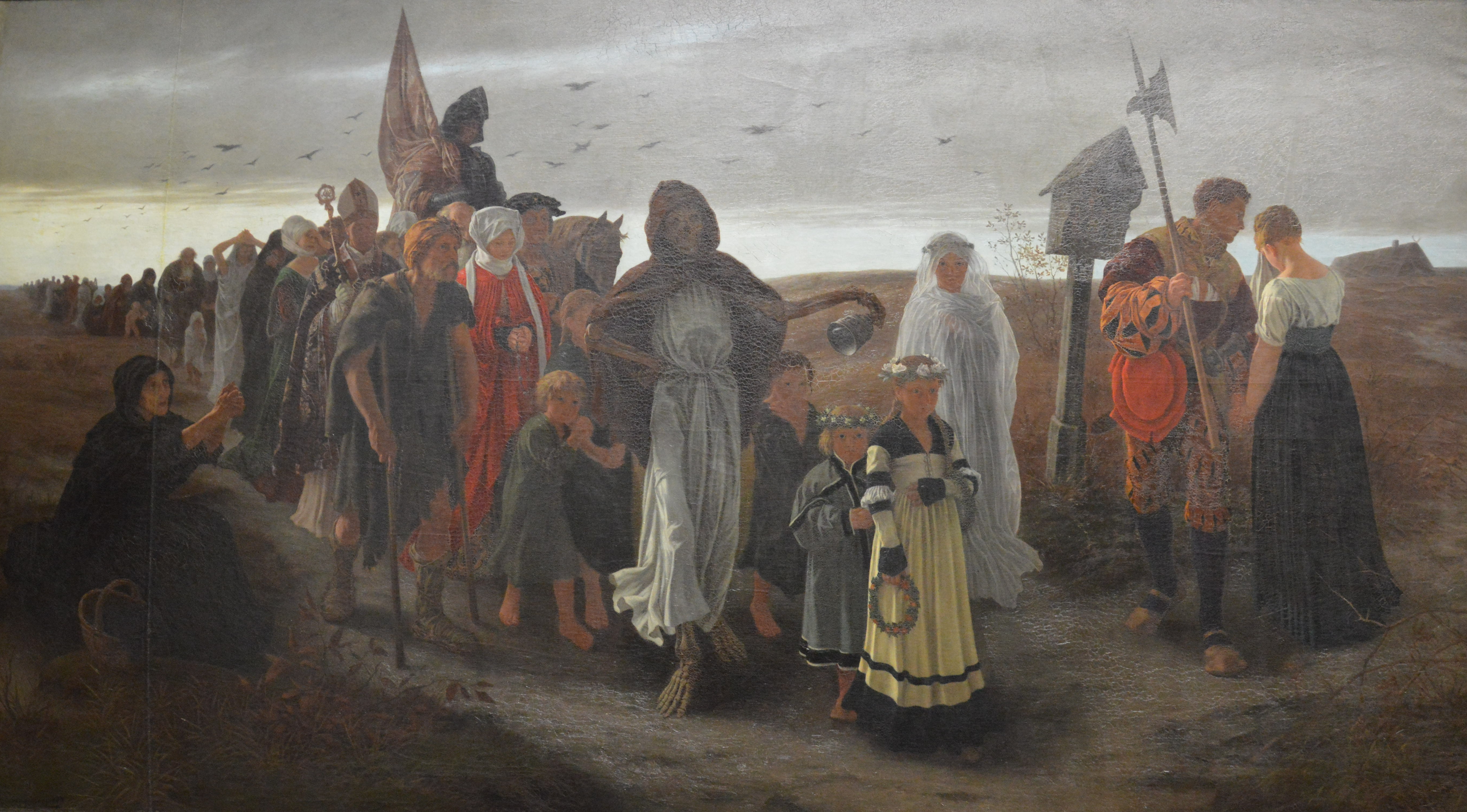 Gustav Spangenberg's 1876 painting, "Der Zug des Todes" (The Train of Death) at the Alte Nationalgalerie, Berlin.